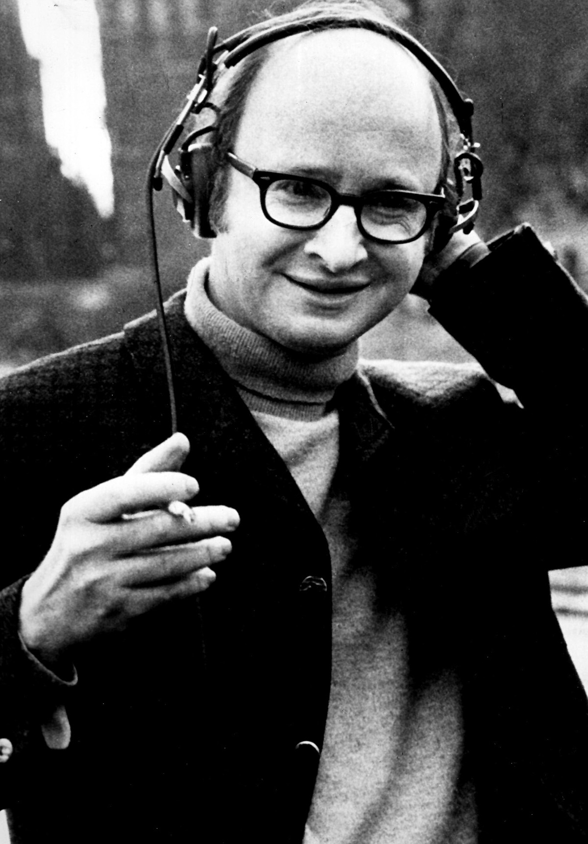 Publicity photo of Jules Feiffer